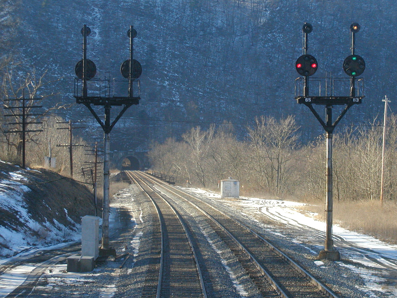 MAGNOLIA signals on the CSX Cumberland Subdivision. Twin B&O Color Position Light bi-directional bracket masts displaying Restricted Proceed and Clear.